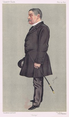 Caricature of Col The Hon HWJ Byng JP. Caption read "Byngo".